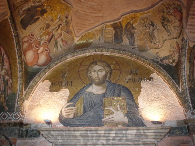 The Holy Savior in Chora. The mosaic in the lunette over the doorway to the esonarthex portrays Christ as "The Land of the Living". The composition reflects the theological and philosophical interpretation of the term, expounded by Theodore Metochites and other scholars of his time (1315-1321).